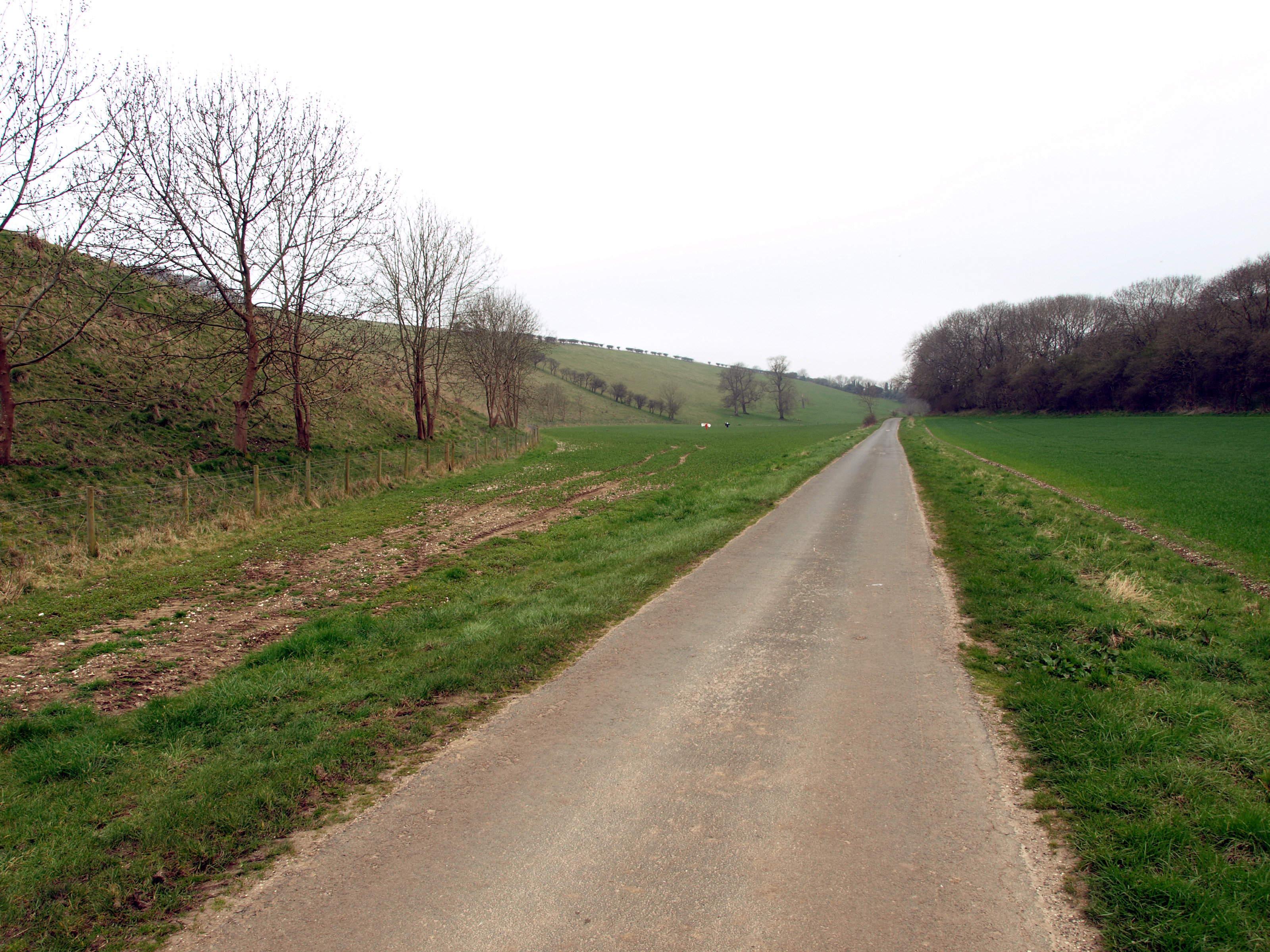 The road to Fordon, East Riding of Yorkshire, England.